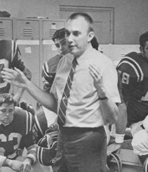 From original source: "Coach Darryl Rogers talks to his team during halftime of the Cal State Los Angeles game. This was the only PCAA game Fresno won as they finished their first year in the new conference with a 1-3 record."